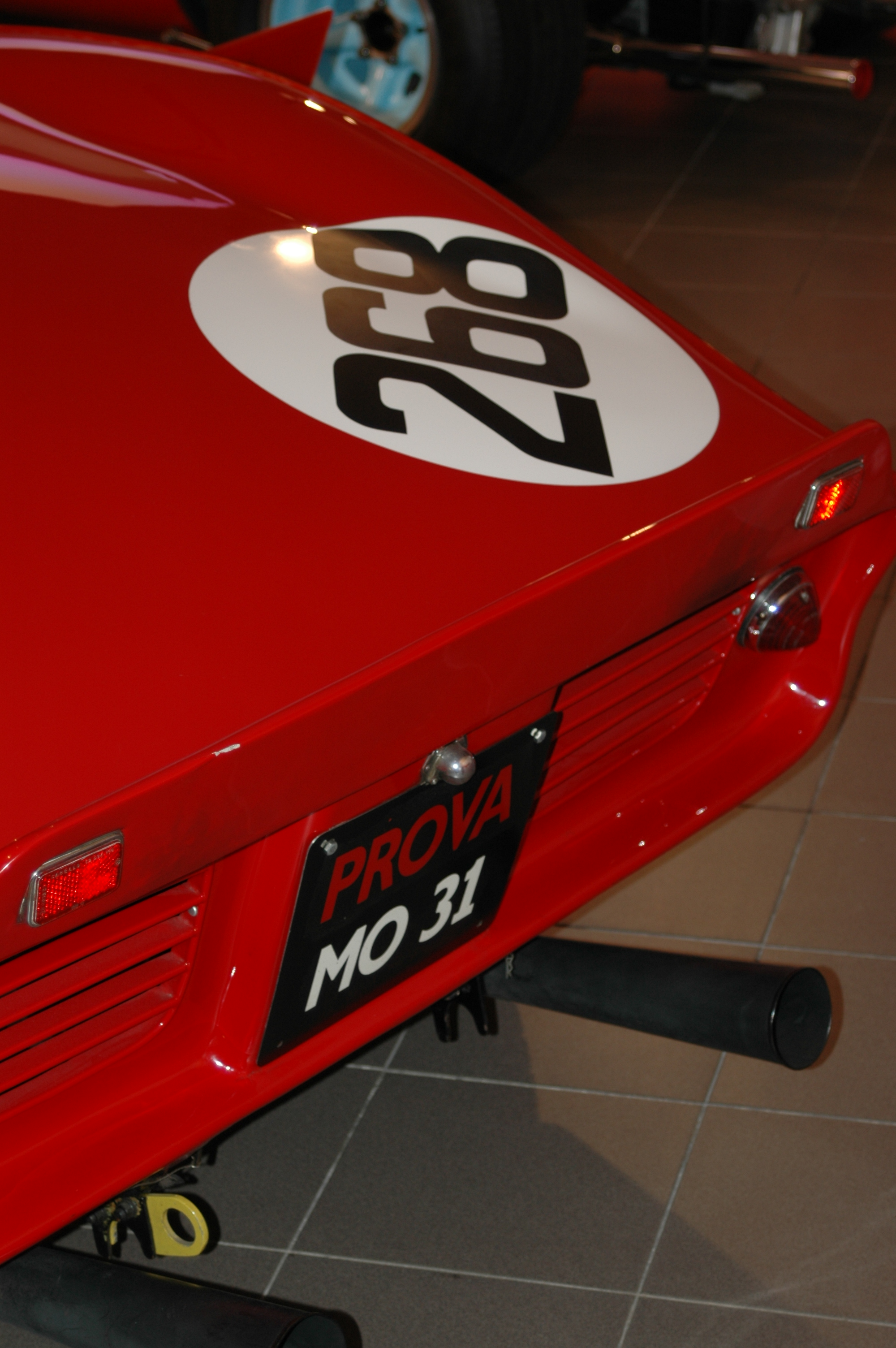 1962 Ferrari Dino 268 SP. This is s/n 0798 on display at Galleria Ferrari (later changed name to Museo Ferrari) in 2006.[1]